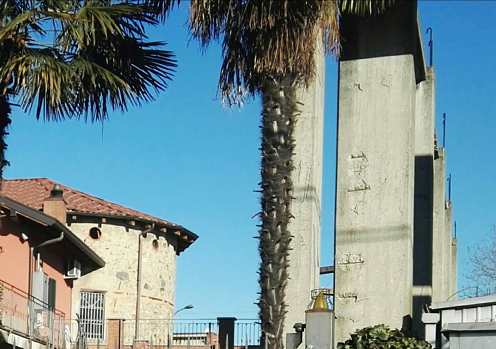 Previous parish church of Portichetto